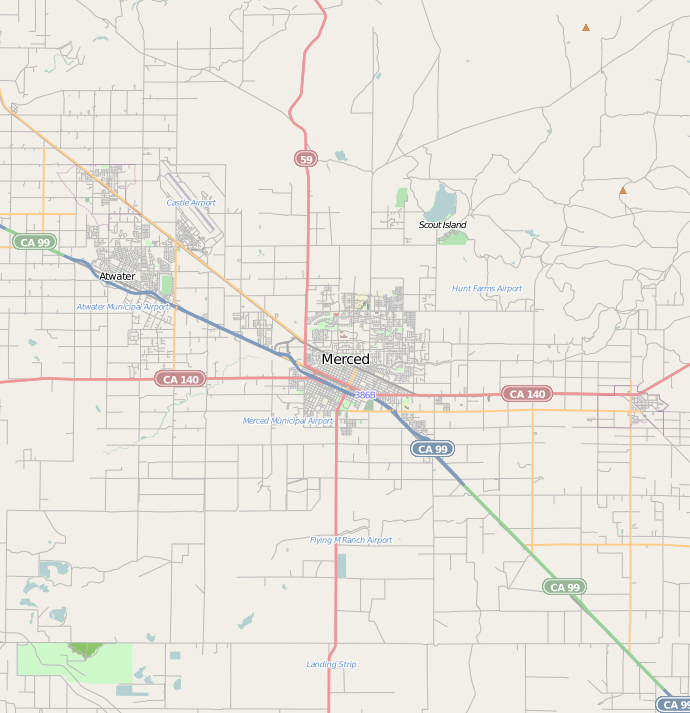 Street map of Merced — in Merced County, central California. This map may be incomplete, and may contain errors. Don't rely solely on it for navigation.